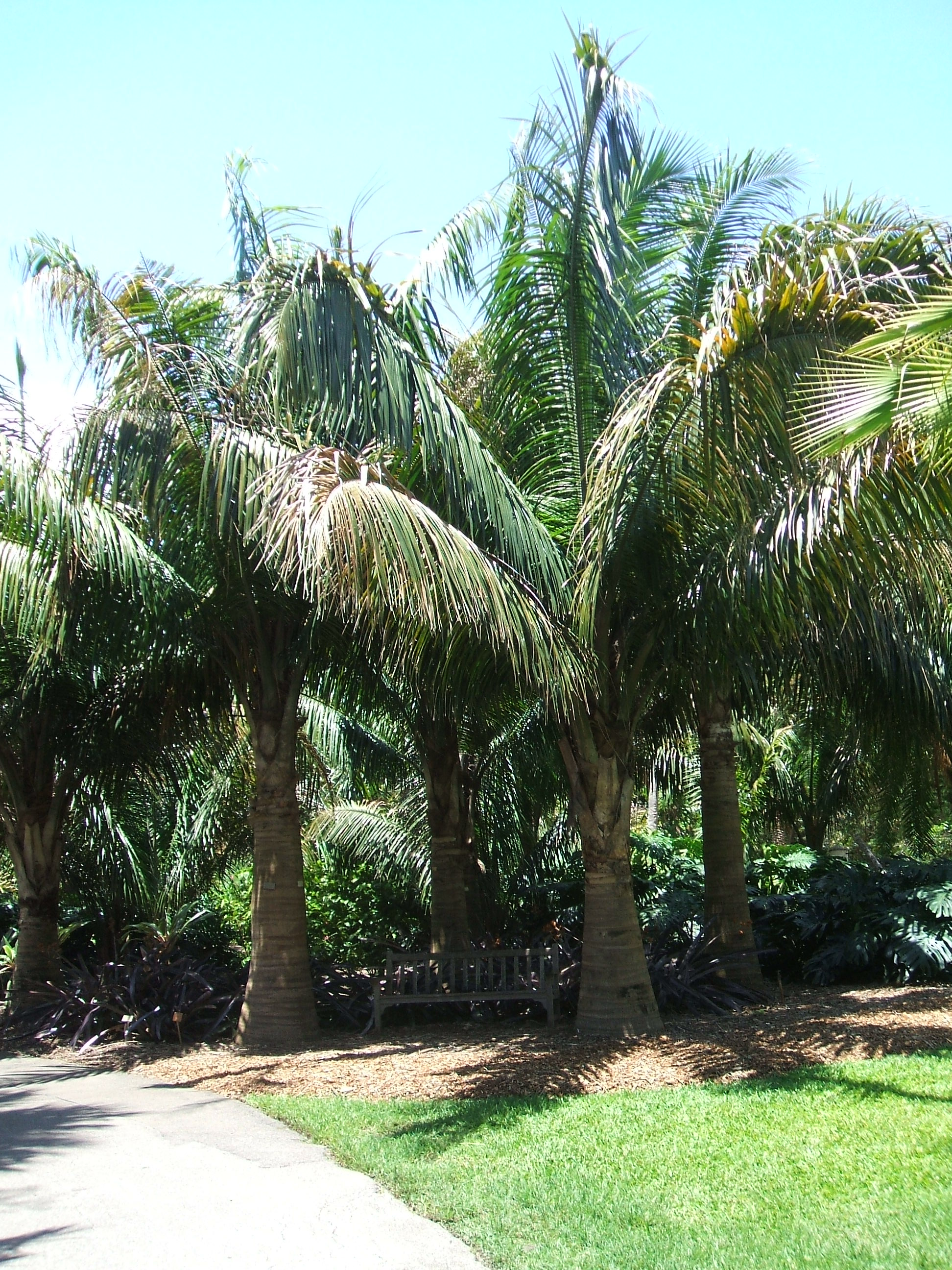 Attalea crassispatha at Fairchild Tropical Botanic Garden, Coral Gables, Florida, USA